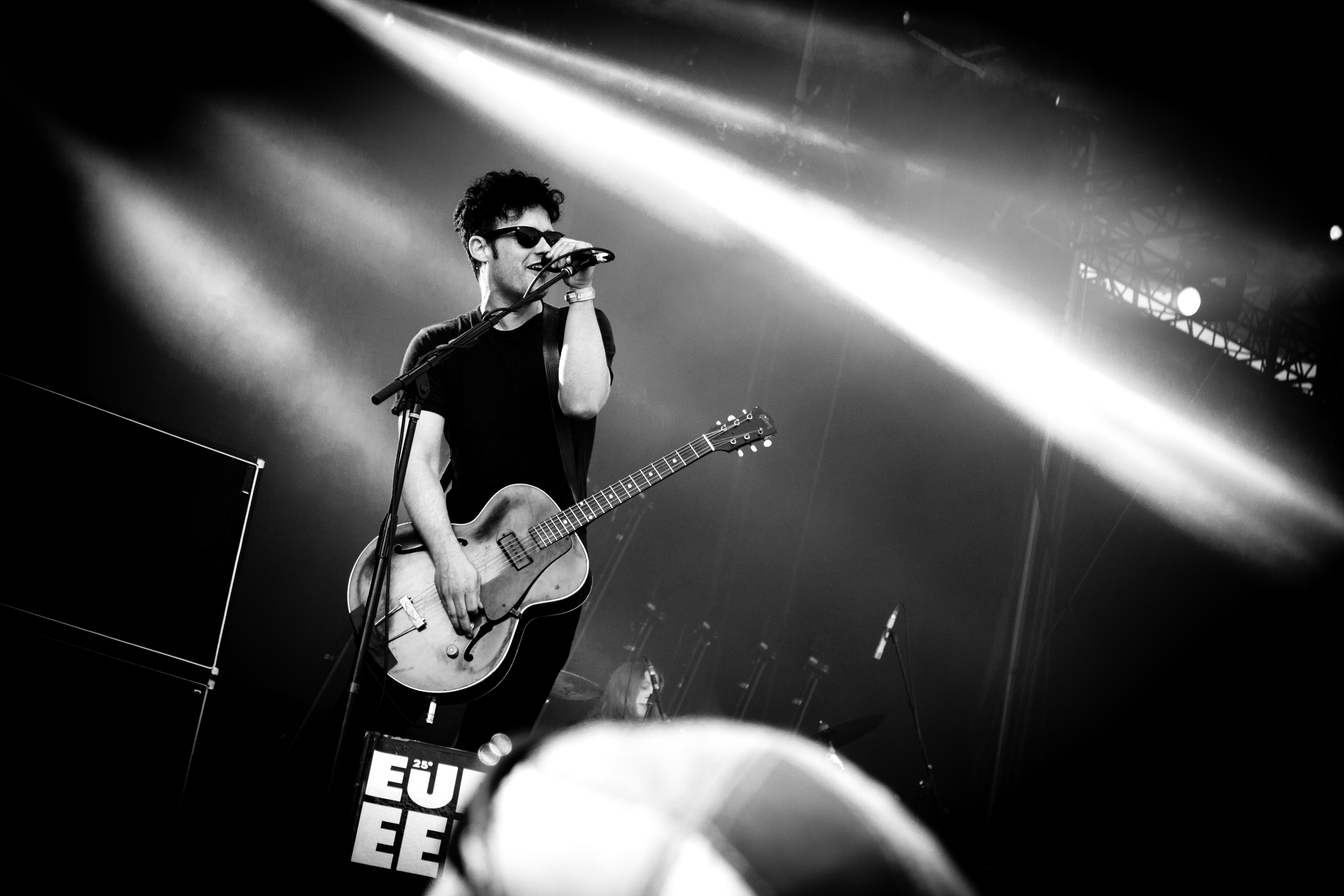 Follow me on facebook Twitter : @didyPhotography All the photographies I've made are now under CC0 (Creative Commons Zero) CC0 - learn more To the extent possible under law, Eddy BERTHIER has waived all copyright and related or neighboring rights to Black Rebel Motorcycle Club @ Eurockéennes de Belfort 2013. This work is published from: France.